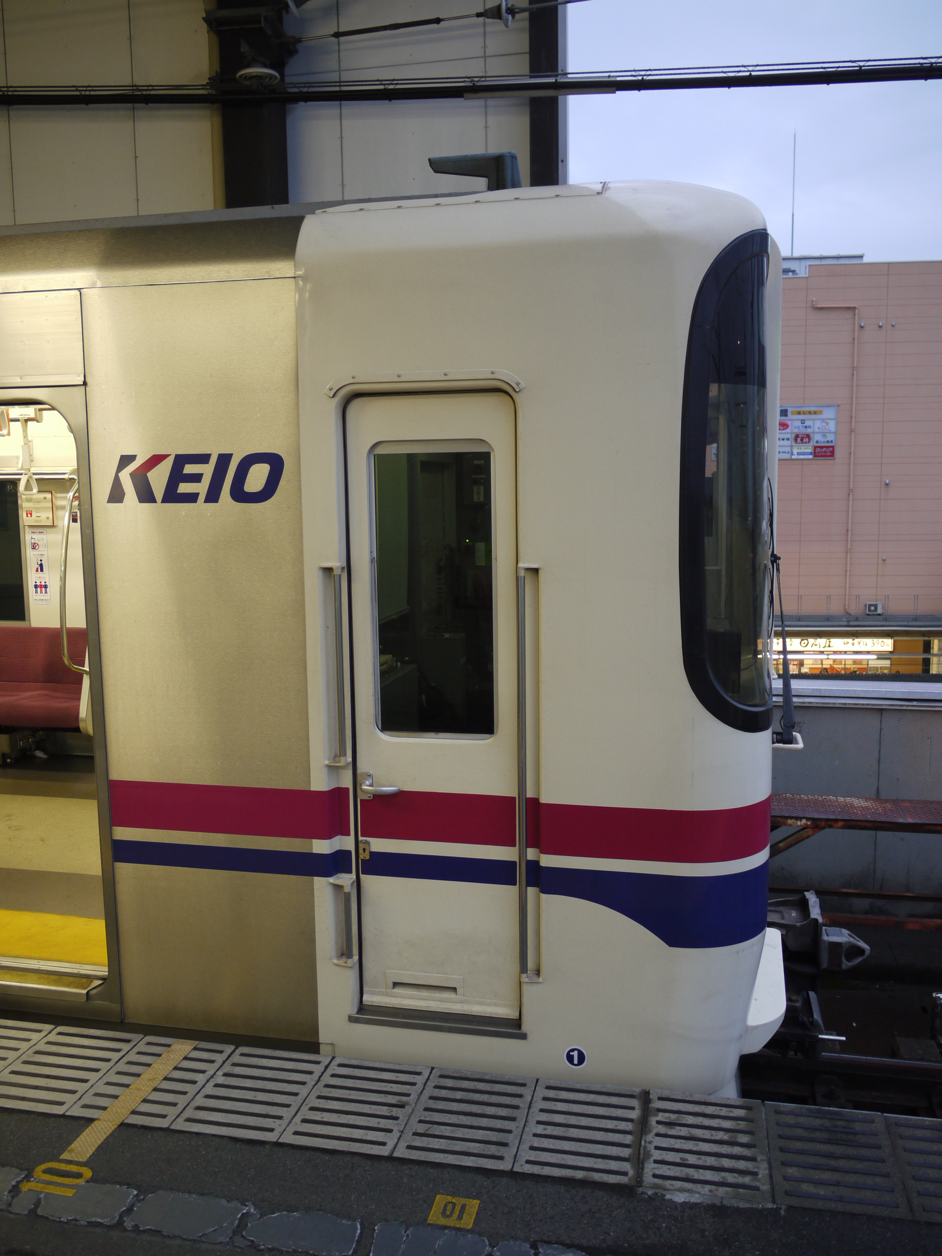 Keio 9000 front side view